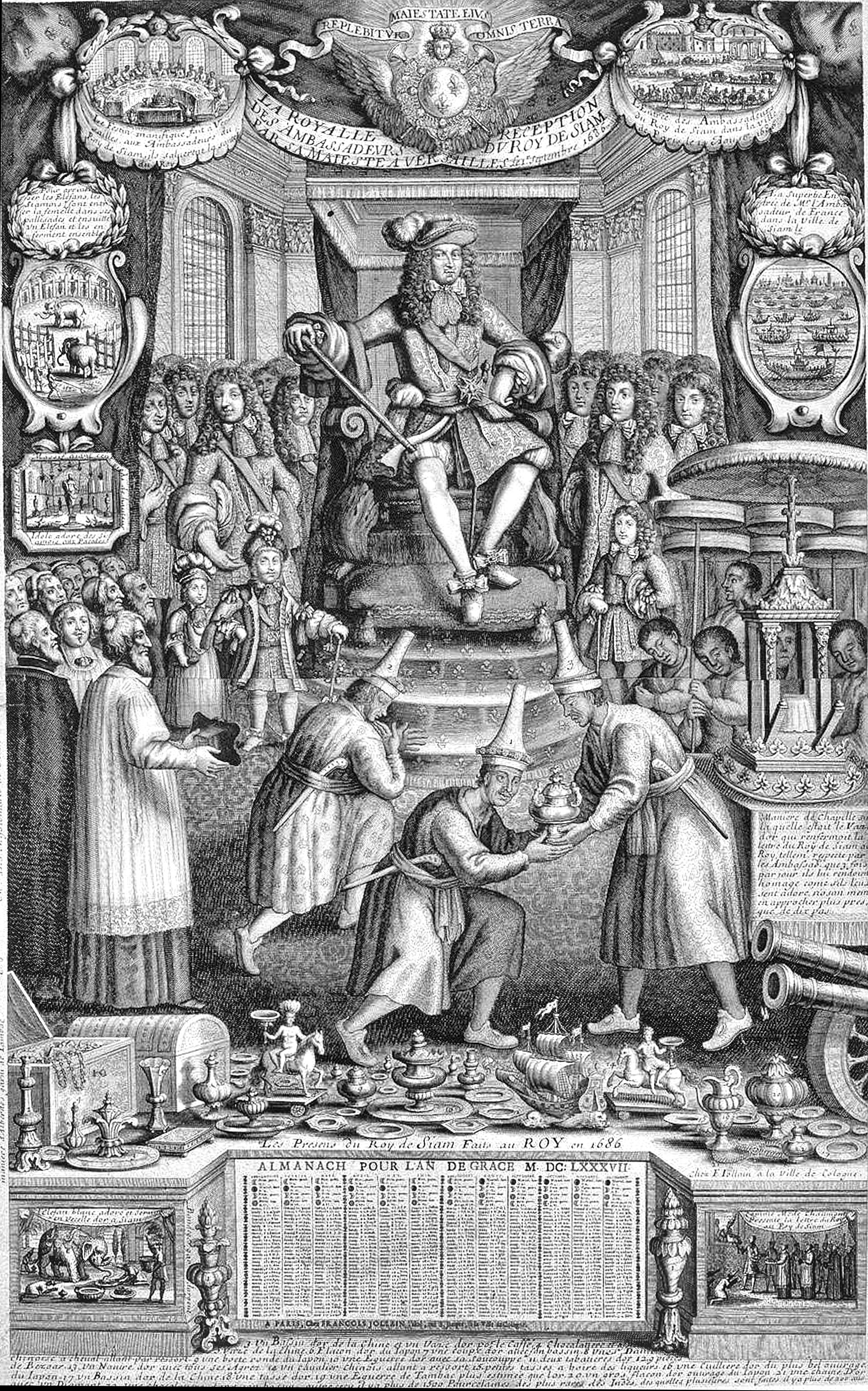 Almanach_1687_Kosa_Pan_with_Louis_XIV